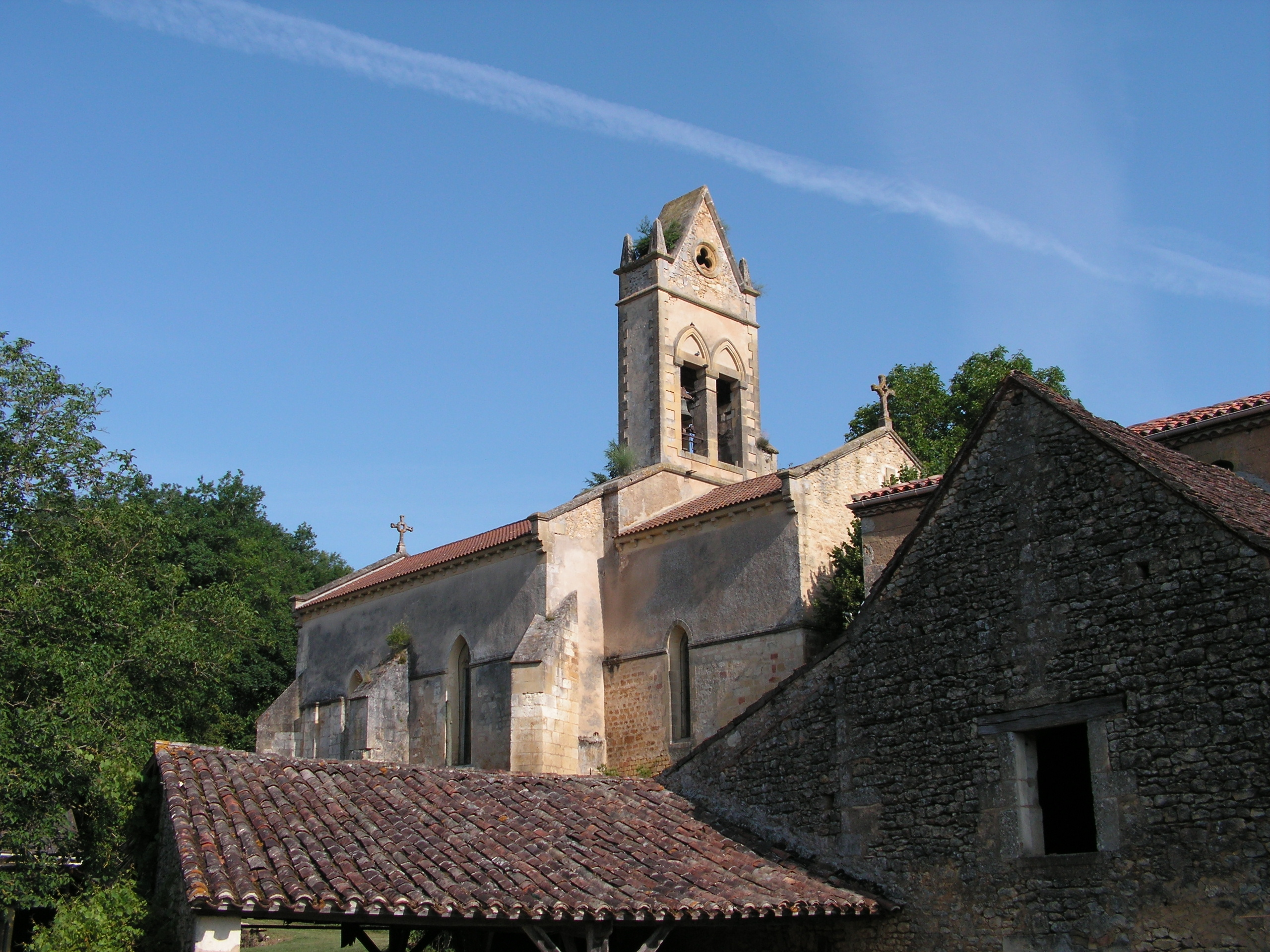 Saint-Marcel-du-Périgord church